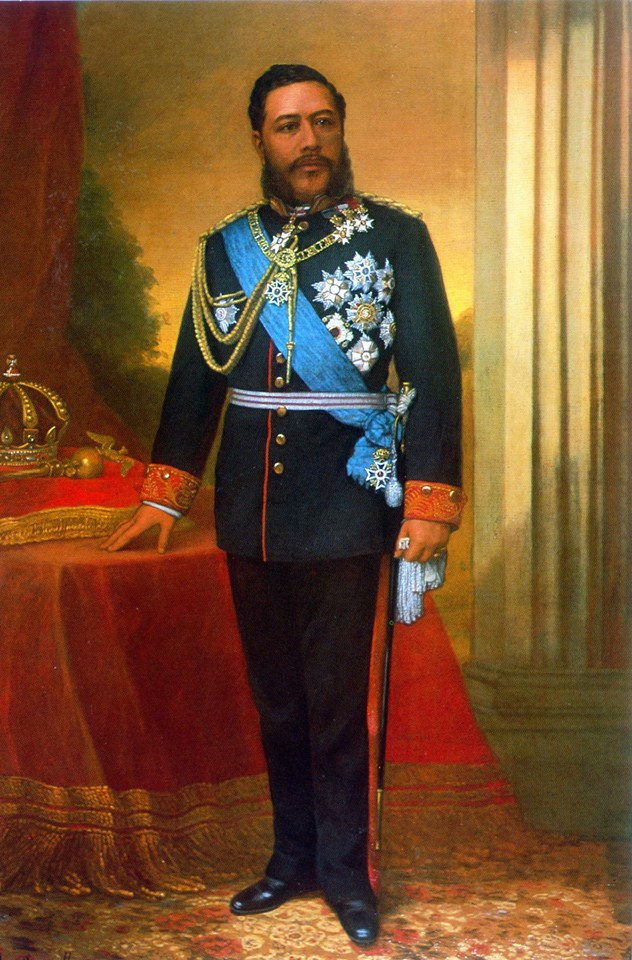 Official painting of King David Kalakaua by William Cogswell. Currently displayed in the Blue Room of Iolani Palace.